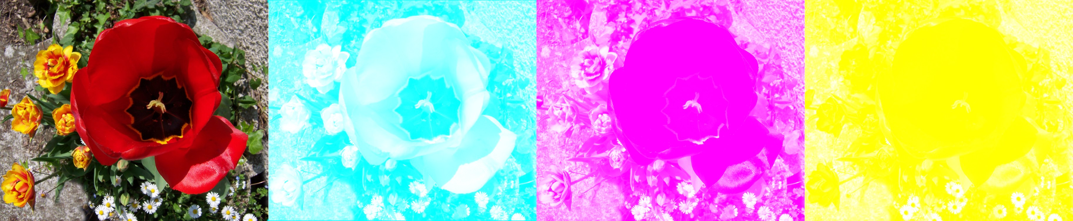 Subtractive color synthesis - CMY positives